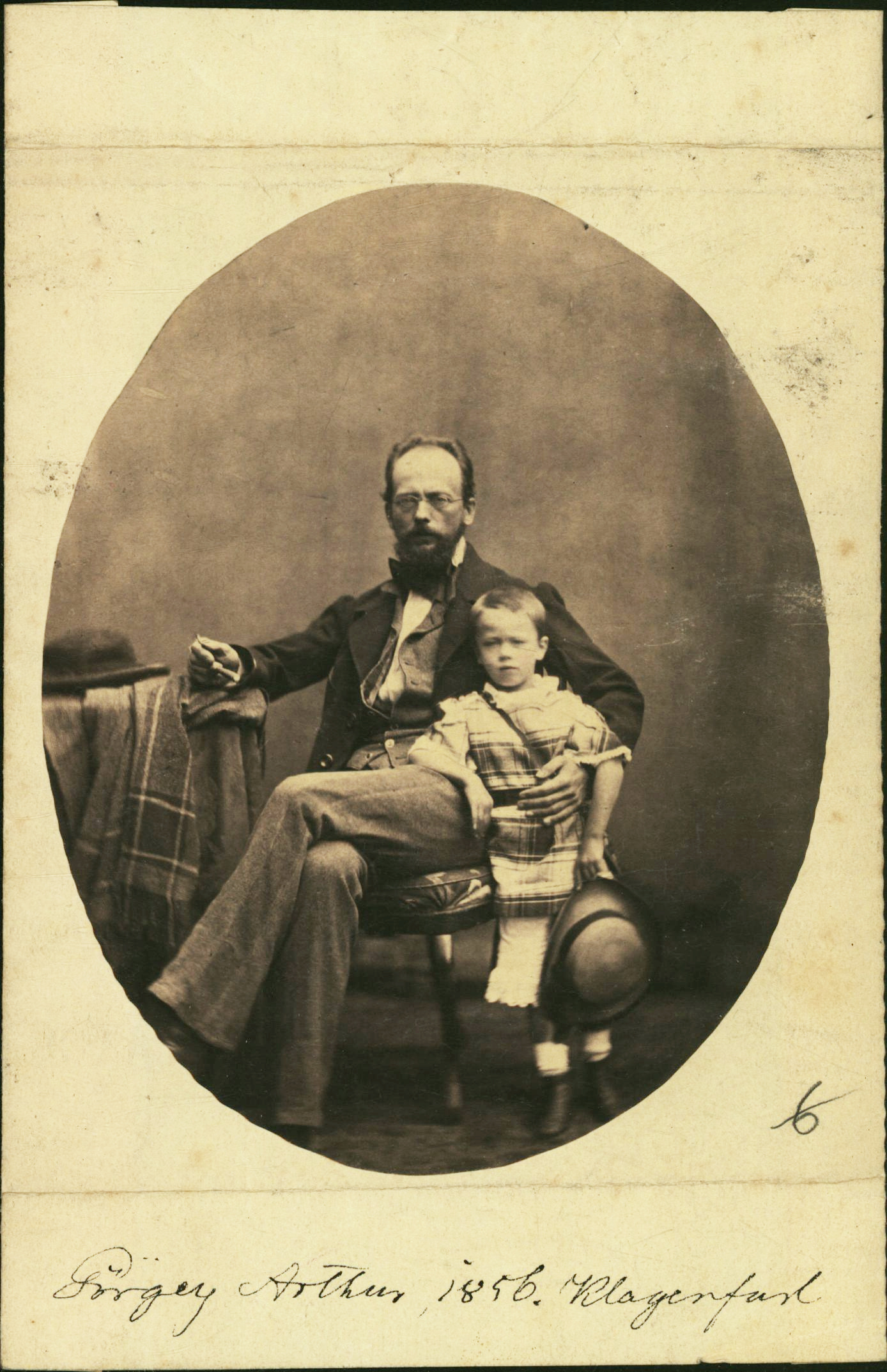 General Görgei Artúr with his son 1856 in exile in Klagenfurt